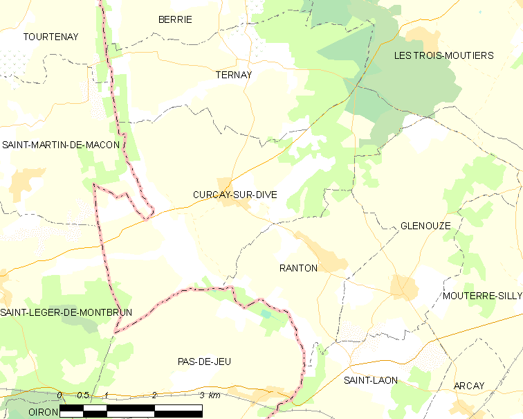 Map of French municipality Curçay-sur-Dive